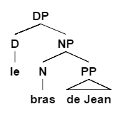 "de Jean" is a postnominal possessor - it occurs after the noun. Sentence adapted from Guéron 2007: 590 (1a)